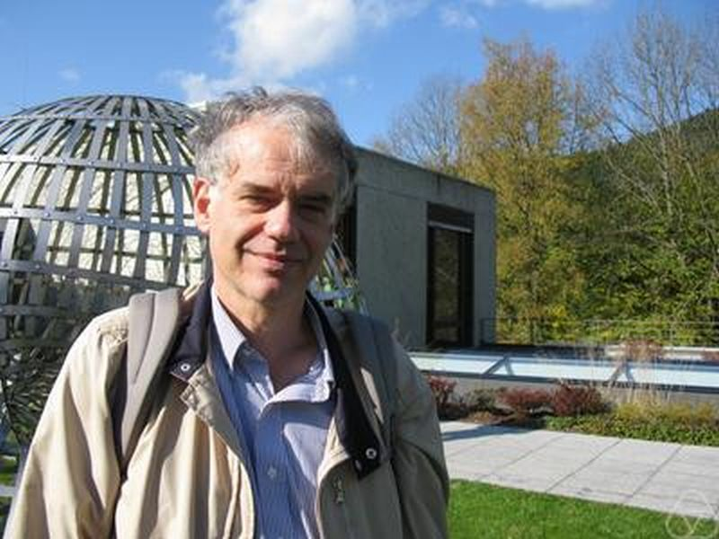 Mikhail Lyubich, Oberwolfach 2008